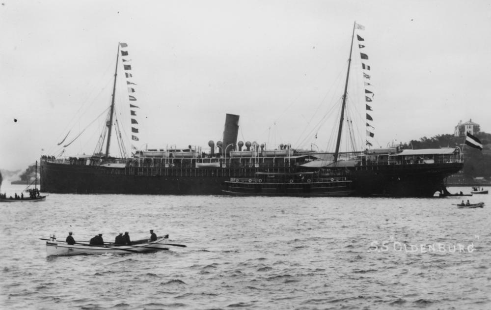 Oldenburg (ship). Built in 1890 the SS Oldenburg was 5006 tons.